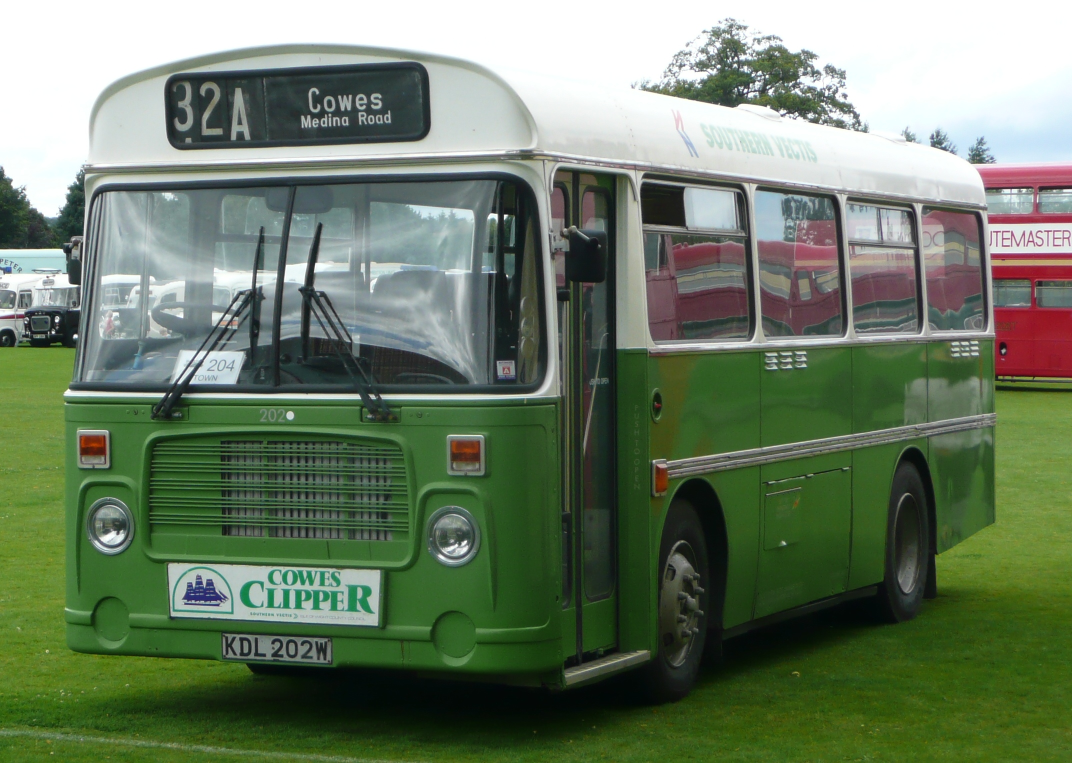 An old and now preserved Bristol LH/ECW. It used to be run by Southern Vectis and is seen at the 2008 Alton Bus Rally.